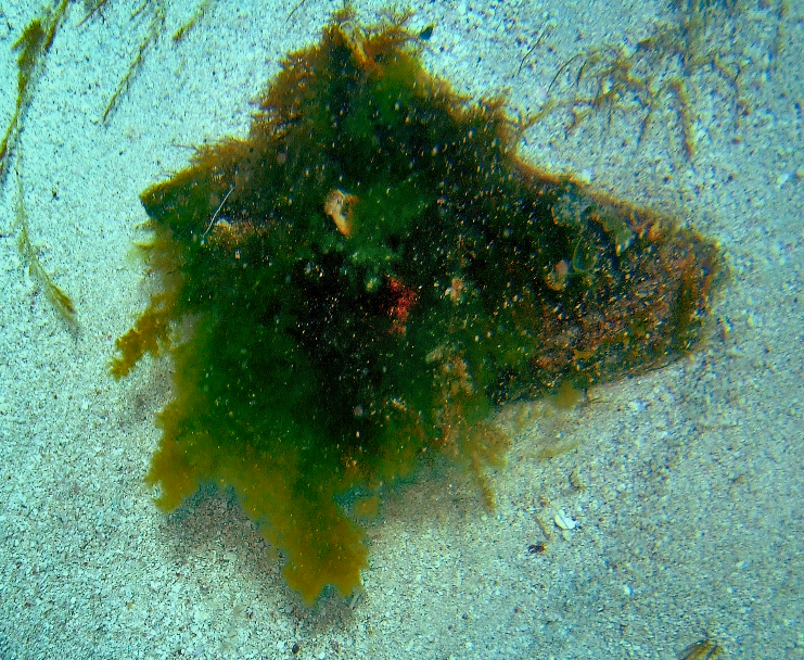 Queen Conchs are often disguised with weed. In the sandy water 13 metres below the swimmer they may be confused with stones.